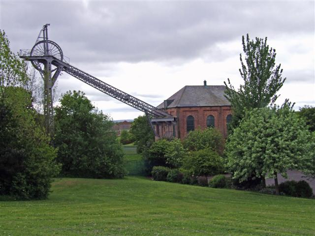 Washington F Pit Museum In the 18th/19th century, a series of coal pits were sunk in the area and lettered from A - J. F pit was sunk in 1777. By the 1960s F Pit employed 1500 men and was the UK's oldest working coalmine. F Pit was closed in 1968. The pit head and winding house was preserved as a small museum (open summer weekends only). Today it is in a park and surrounded by trees; it is difficult to imagine the working pit with its 200 ft high slagheap! Historical info: (halfway down the page)